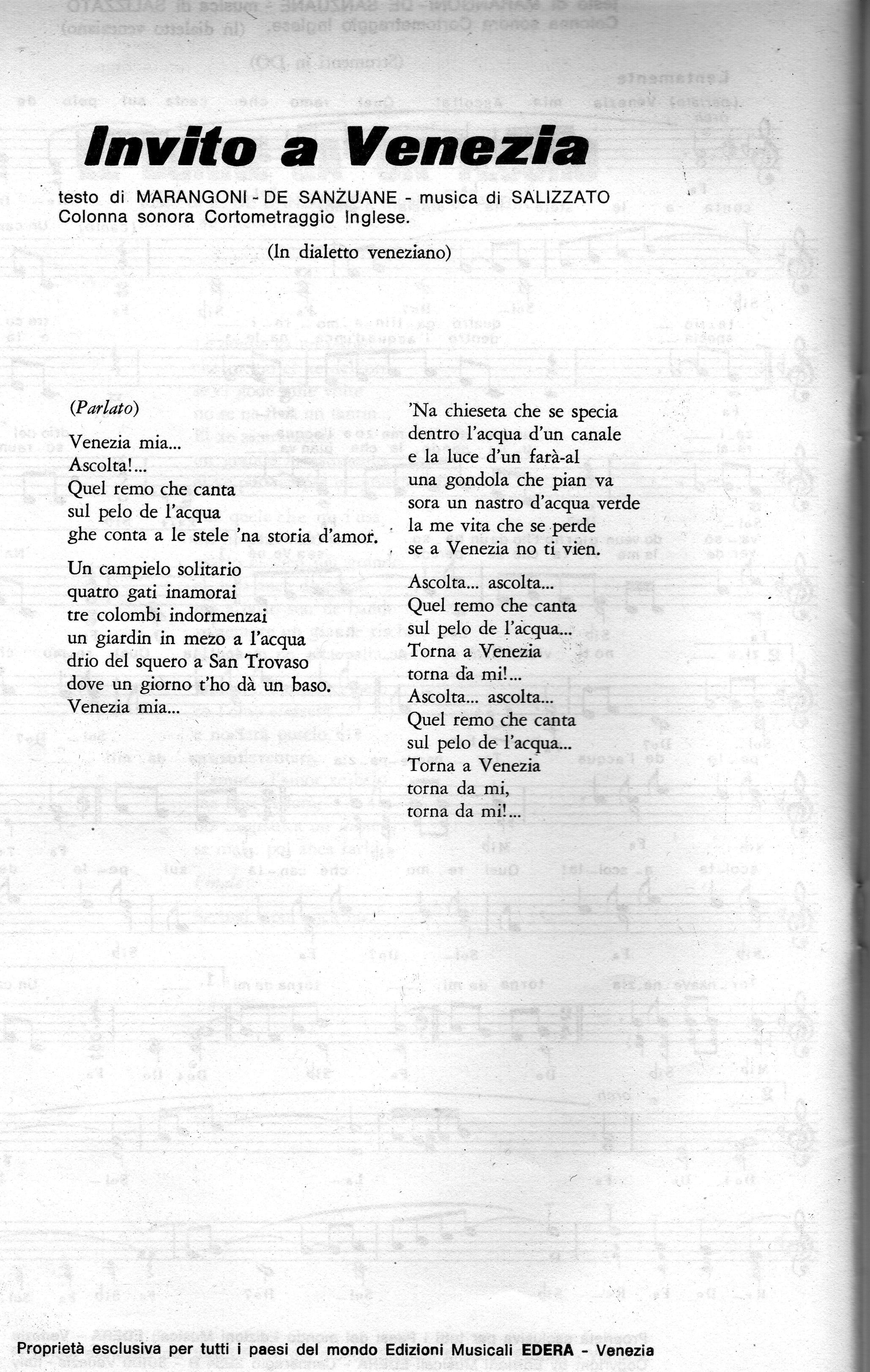 Invito a Venezia (è il titolo di una canzone dialettale veneziana, il testo cita il "Squero di San Trovaso")